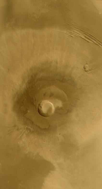 Original Caption Released with Image: 18 January 2004 This Mars Global Surveyor (MGS) Mars Orbiter Camera (MOC) wide angle color composite image, obtained in December 2003, shows the middle of the three Tharsis Montes, Pavonis Mons. This is a broad shield volcano--similar to the volcanoes of Hawaii--located on the martian equator at 113°W. The volcano summit is near 14 km (~8.7 mi) above the martian datum (0 elevation); the central caldera (crater near center of image) is about 45 km (~28 mi.) across and about 4.5 km (~2.8 mi.) deep. Sunlight illuminates the scene from the lower left. Original image found at [1]. The uploader believes that use of this image on Wikipedia accords with the NASA/JPL Image Use Policy. Image Credit: NASA/JPL/Malin Space Science Systems Category:Images of Mars